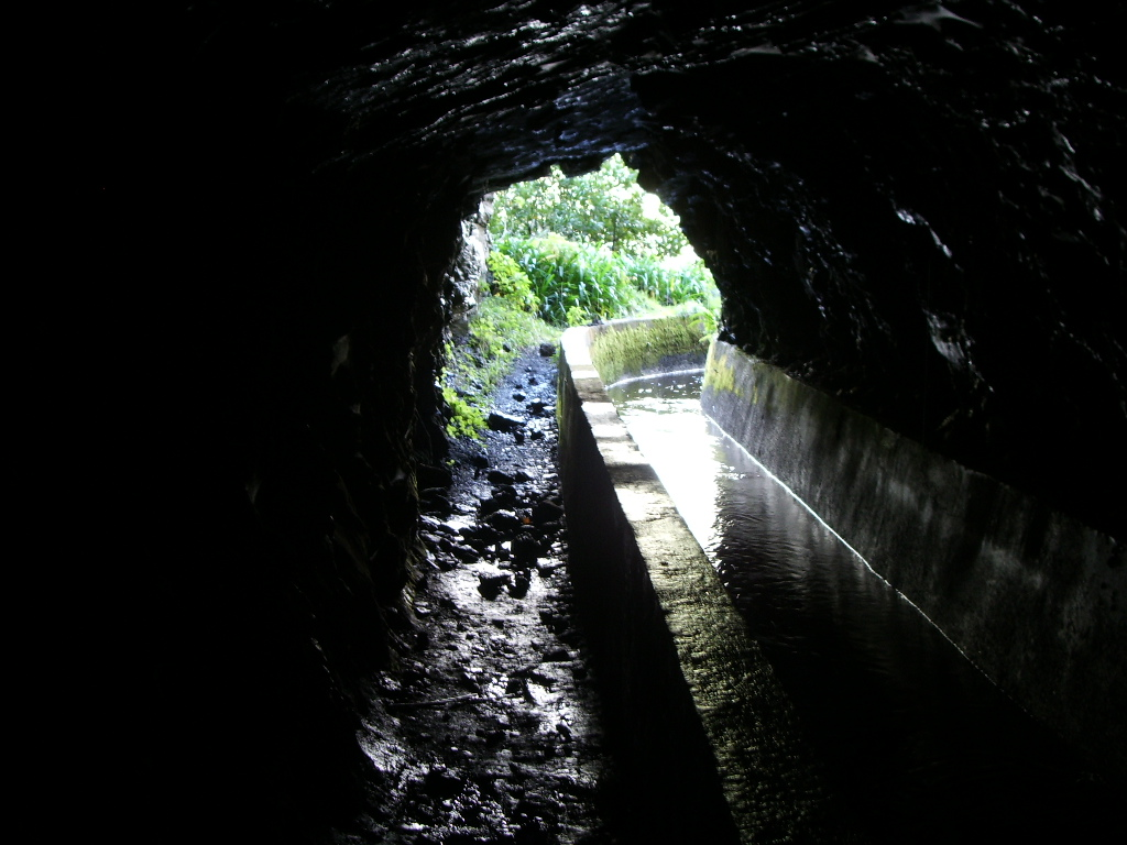 Levada Nova do Norte: very wet tunnel